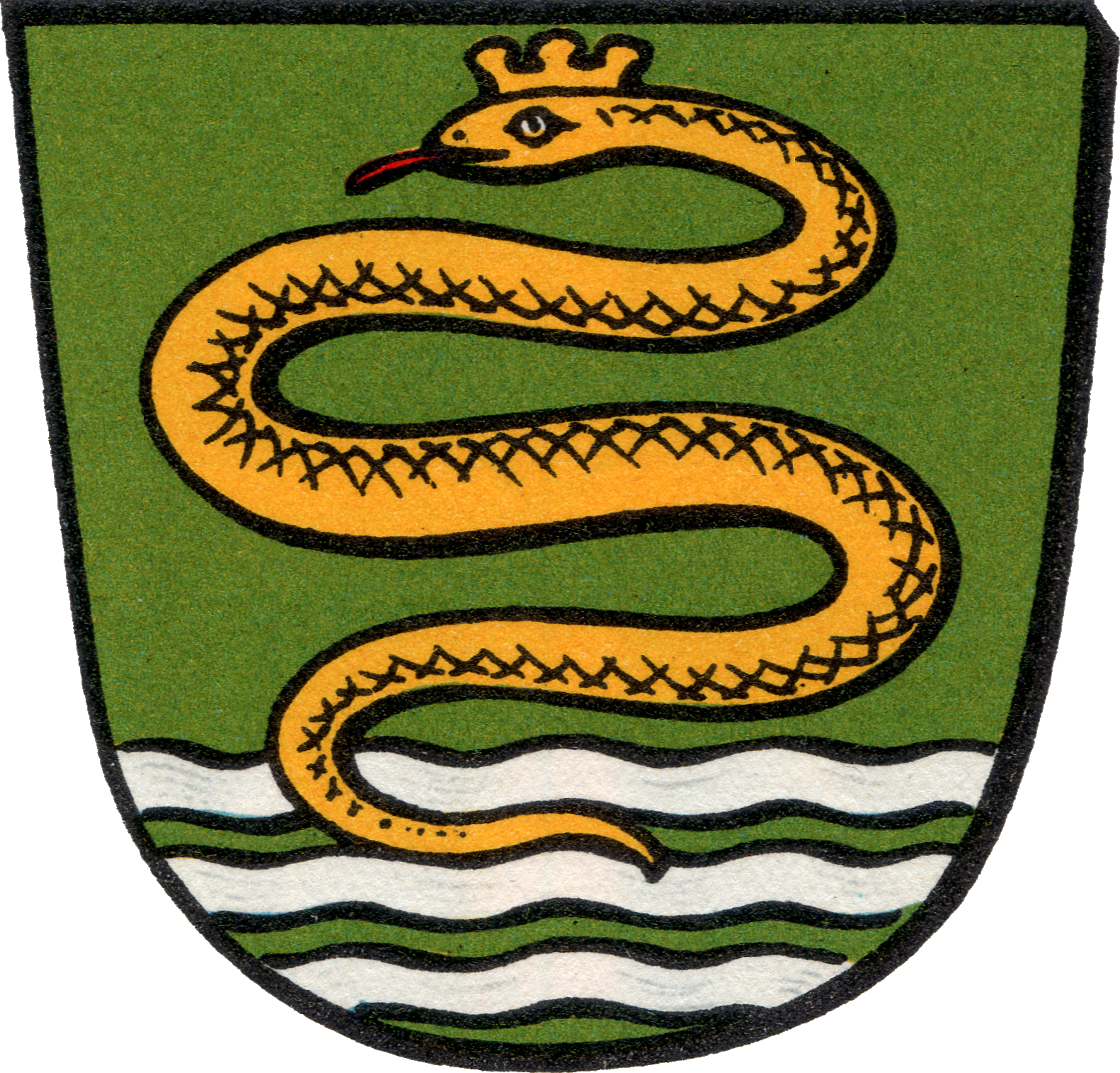 Coat of Arms of Schlangenbad